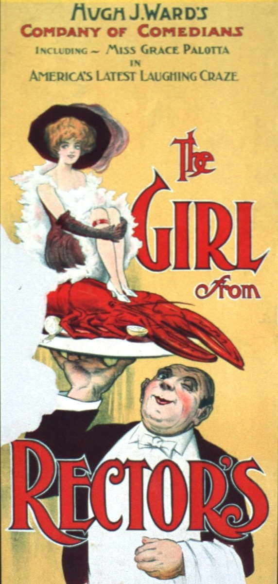 Theatrical poster for a 1910 production of The Girl from Rector's at the Theatre Royal in Hobart, Tasmania. Cropped from the original.